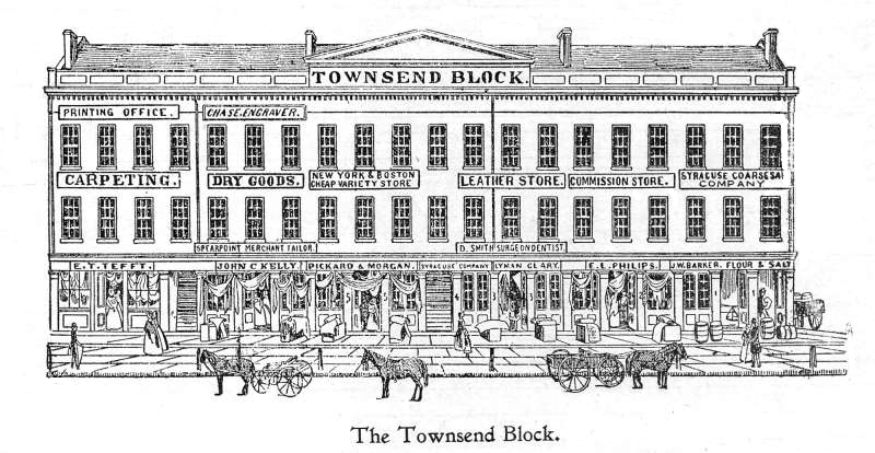 Townsend Block in Syracuse, New York in Clinton Square - Jerry Rescue Building - 1897